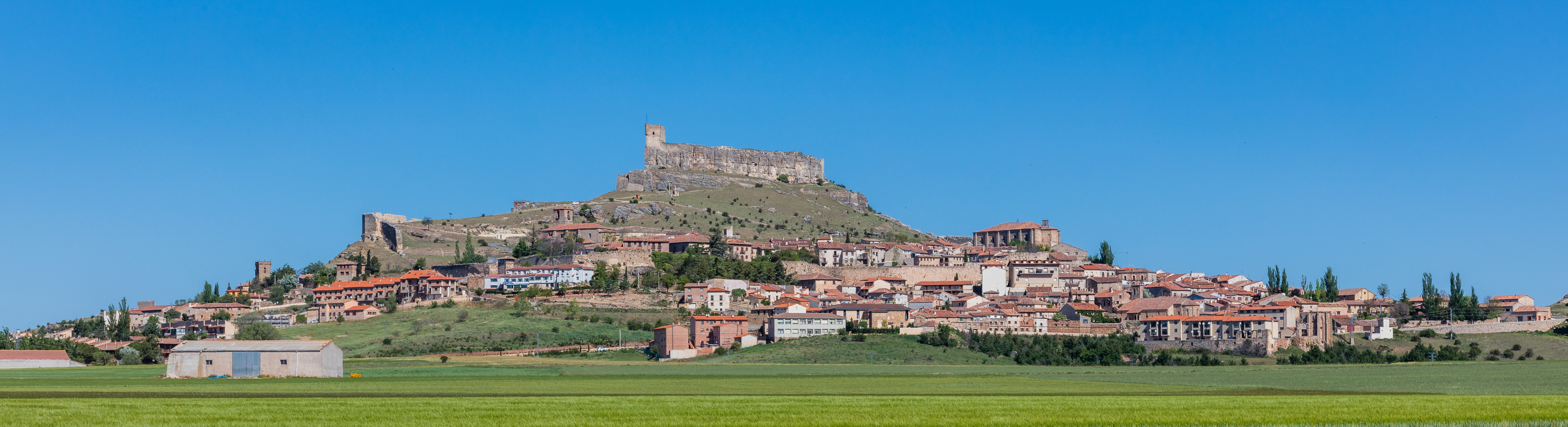 Atienza, Guadalajara, Spain